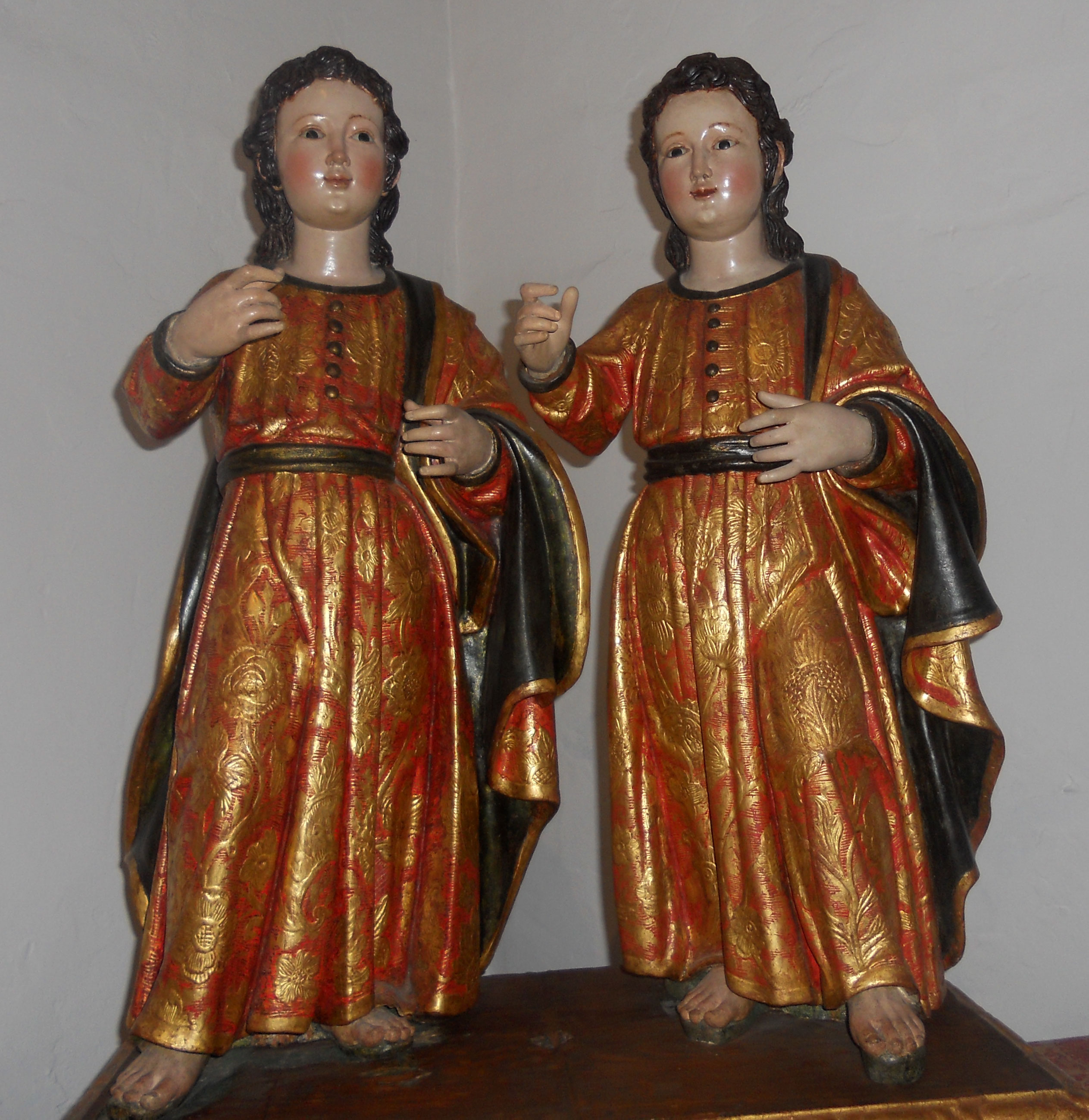 Statues of Saints Justus and Pastor. Museo de Arte Sacro. Cathedral of Las Palmas de Gran Canaria. June 2011.